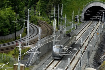 The Drammen Line tangenting the Asker Line at Åstad. The Skaugum Tunnel in the background. On the Asker Line an Airport Express Train Class 71.